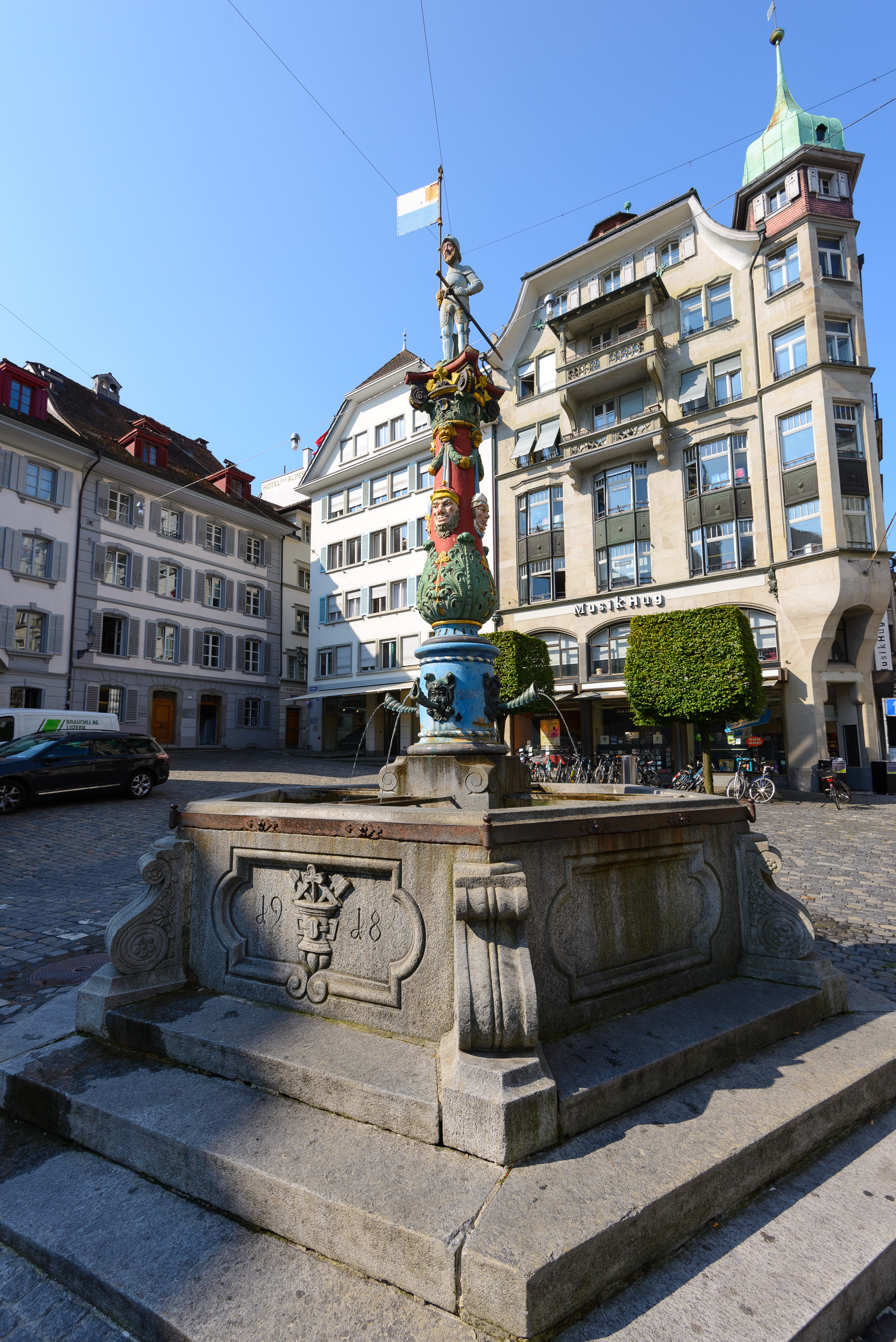 Fritschibrunnen